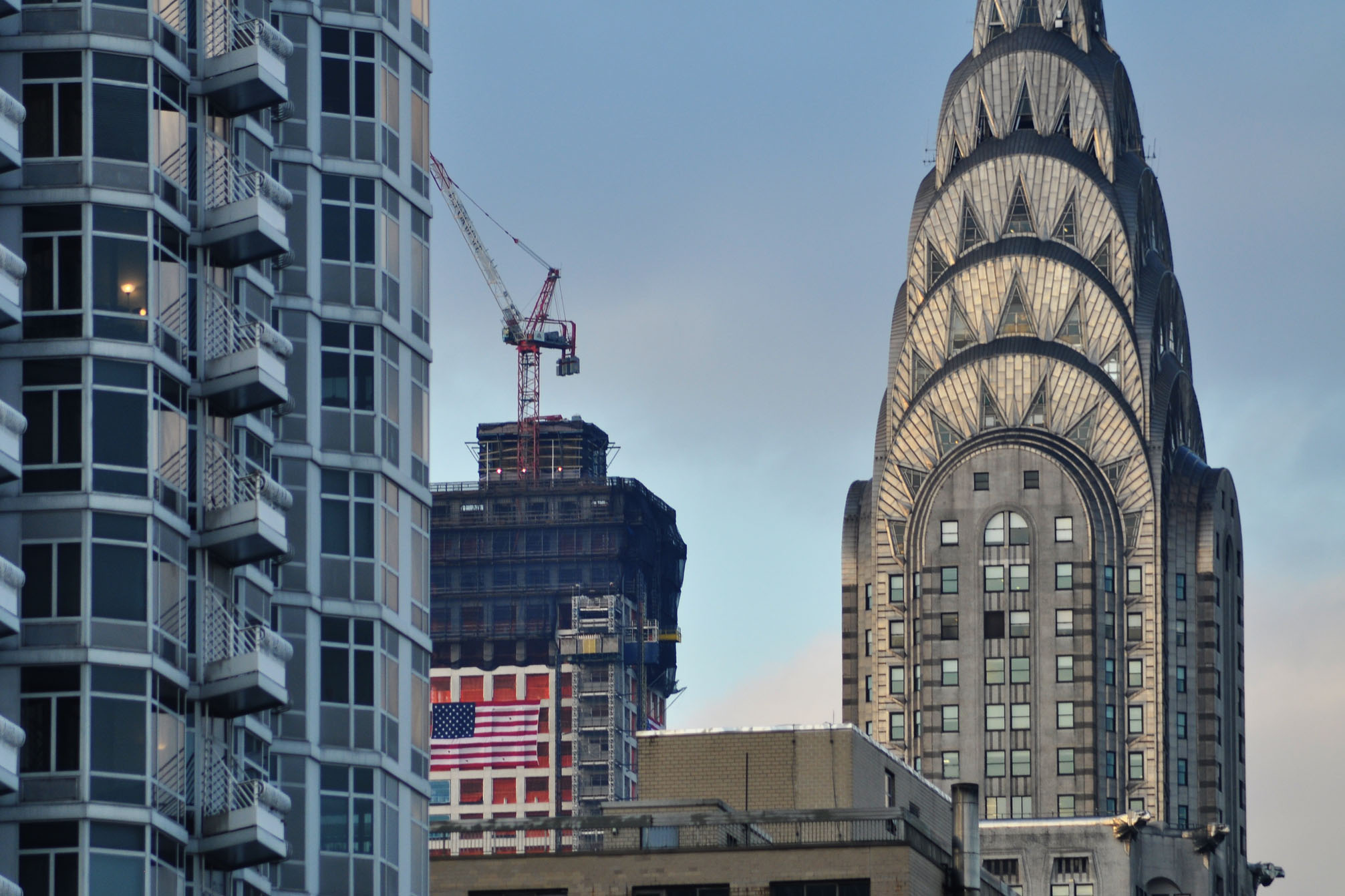 432 Park Avenue under construction, mid October 2014. The core is topped out.